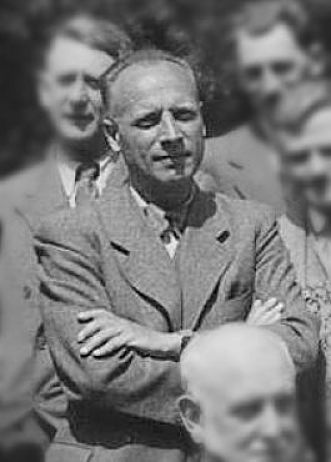 Bart de Ligt (cropped version of File:Photo 7 Council 1938, WRI.jpg)